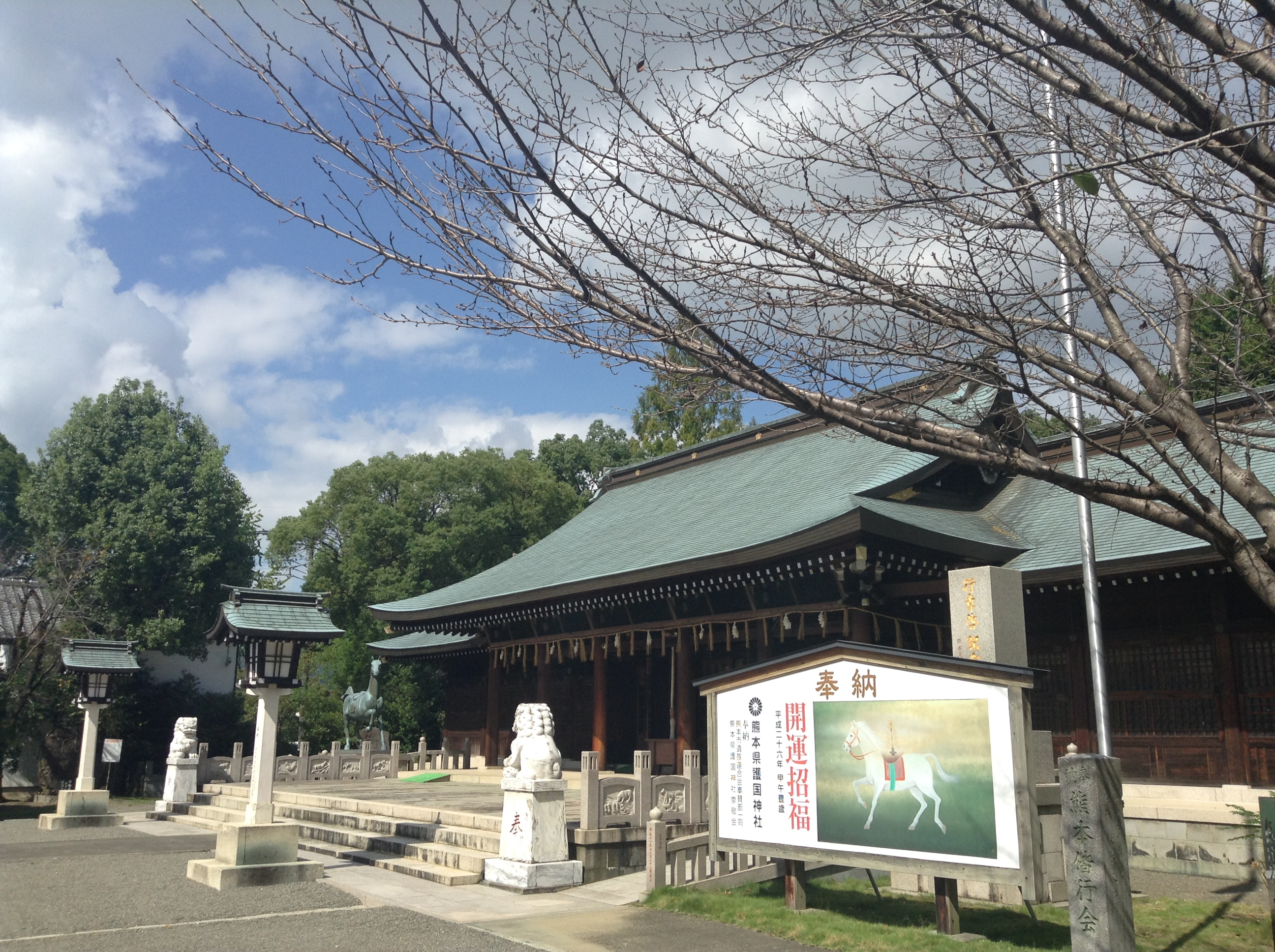 Kumamoto Ken Gokoku JInjia